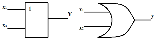 VÕI-loogika skeem